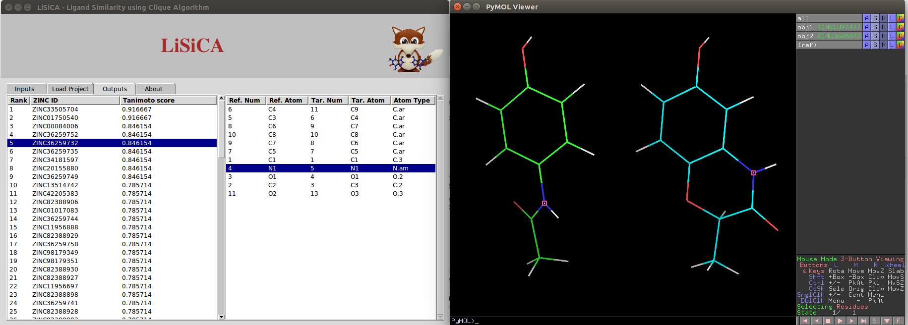 This is an example of an output of the LiSiCA software on two 2D molecules.